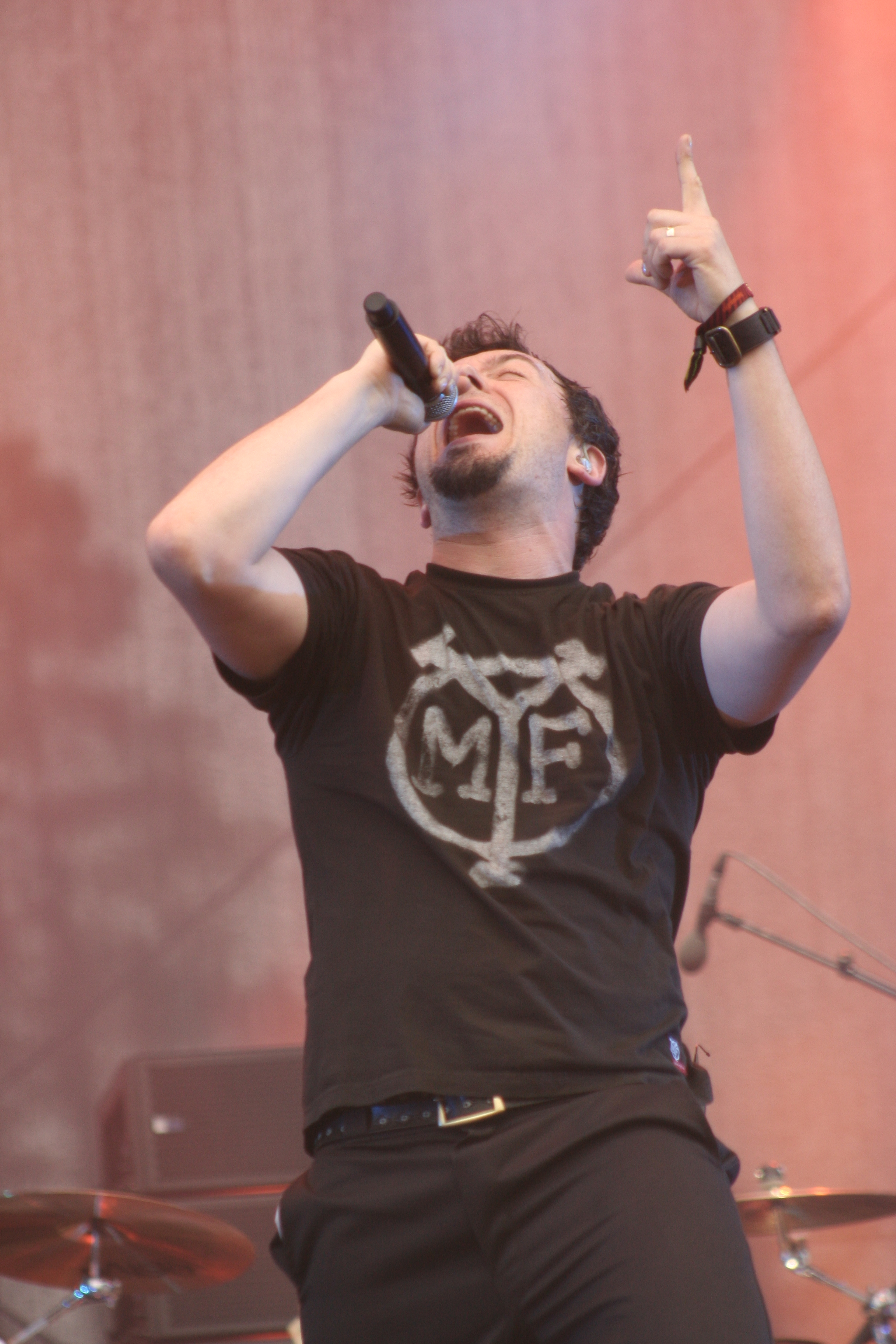 Vocalist JS Clayden of Pitchshifter performing live